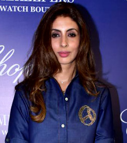 Shweta Bachchan Nanda at Timekeepers Chopard event